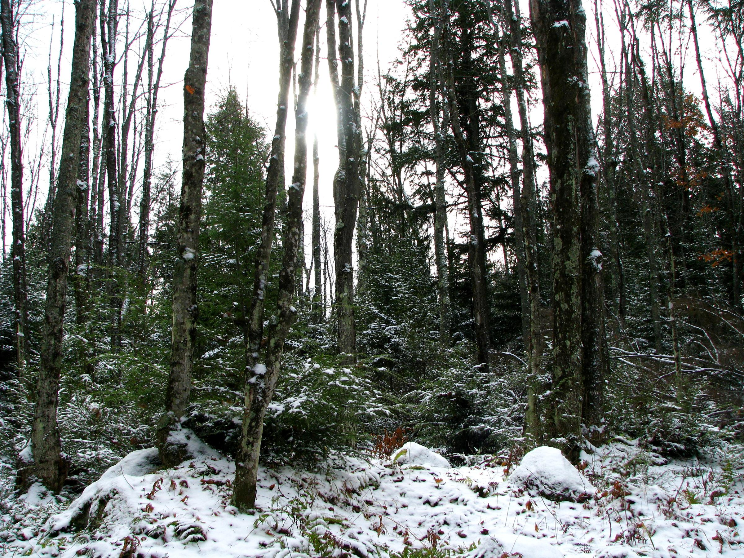 November snow in the Nicolet National Forest